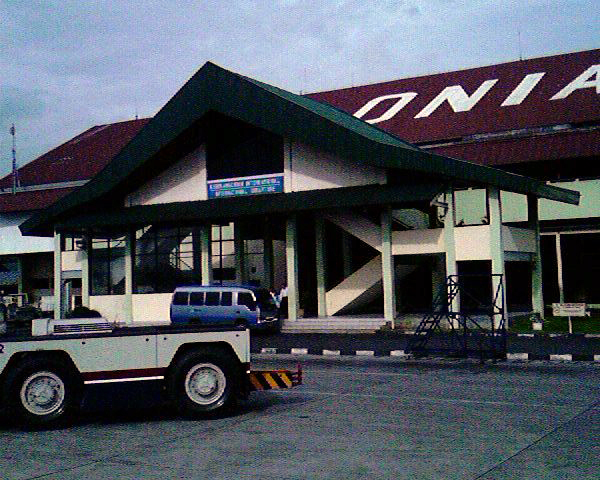 Departure building for international flights at Polonia Airport, Medan, Indonesia. Photo taken on December 2006.